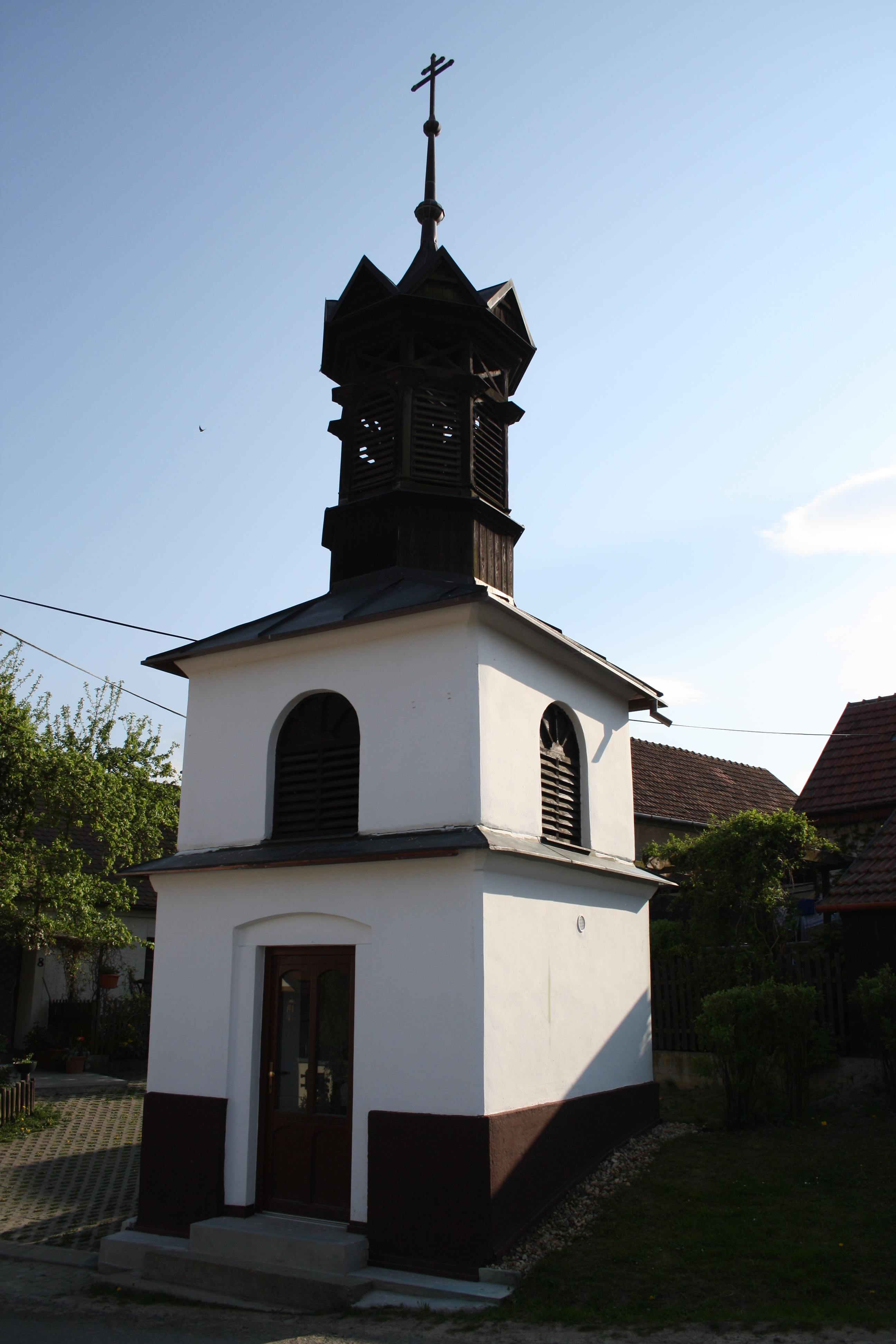 Exterior of bell tower in Zálesná Zhoř, Czech Republic.